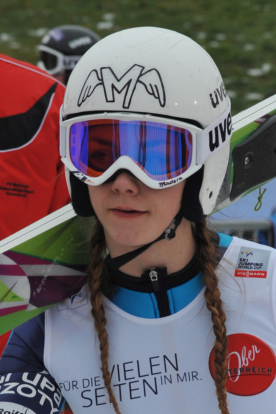 FIS Ski Jumping World Cup Ladies 14th World Cup Competition Normal Hill Individual Hinzenbach (AUT) Sun 2 Feb 2014: Magdalena Palasz